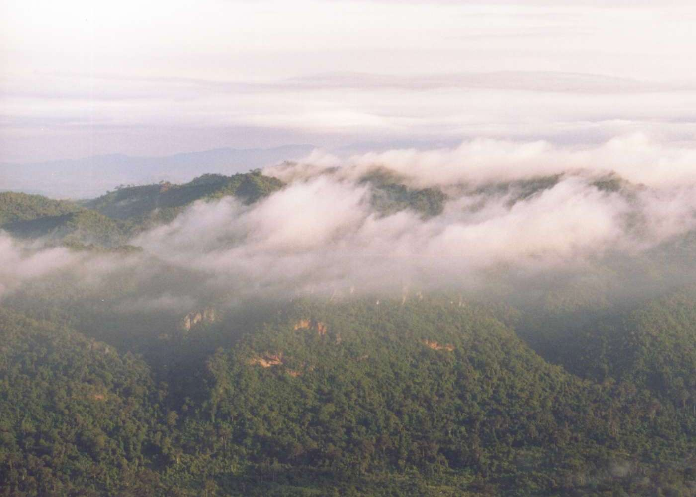 The Luak ridge (San Khao Luak, สันเขาลวก) of the Phetchabun mountains and the Sonthi river (ลำสนธิ) valley, as seen from the Sut Phaen Din (สุดแผ่นดิน) viewpoint of the Pa Hin Ngam National Park, Chaiyaphum province, Thailand. Photo taken in early morning, thus the clouds visible are morning fog. Photo taken by User:Ahoerstemeier on July 14, 2003.